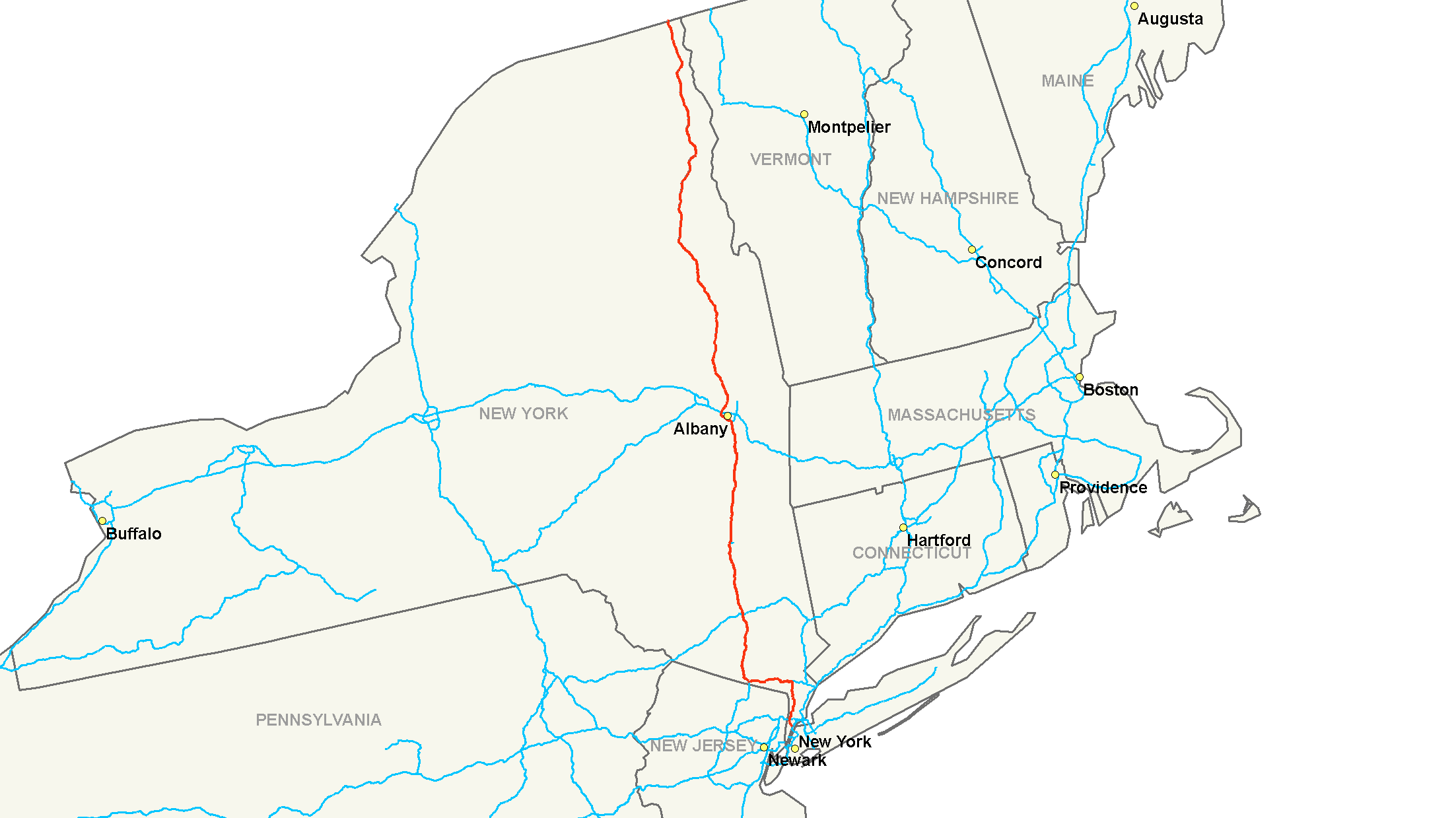 Map of Interstate 87